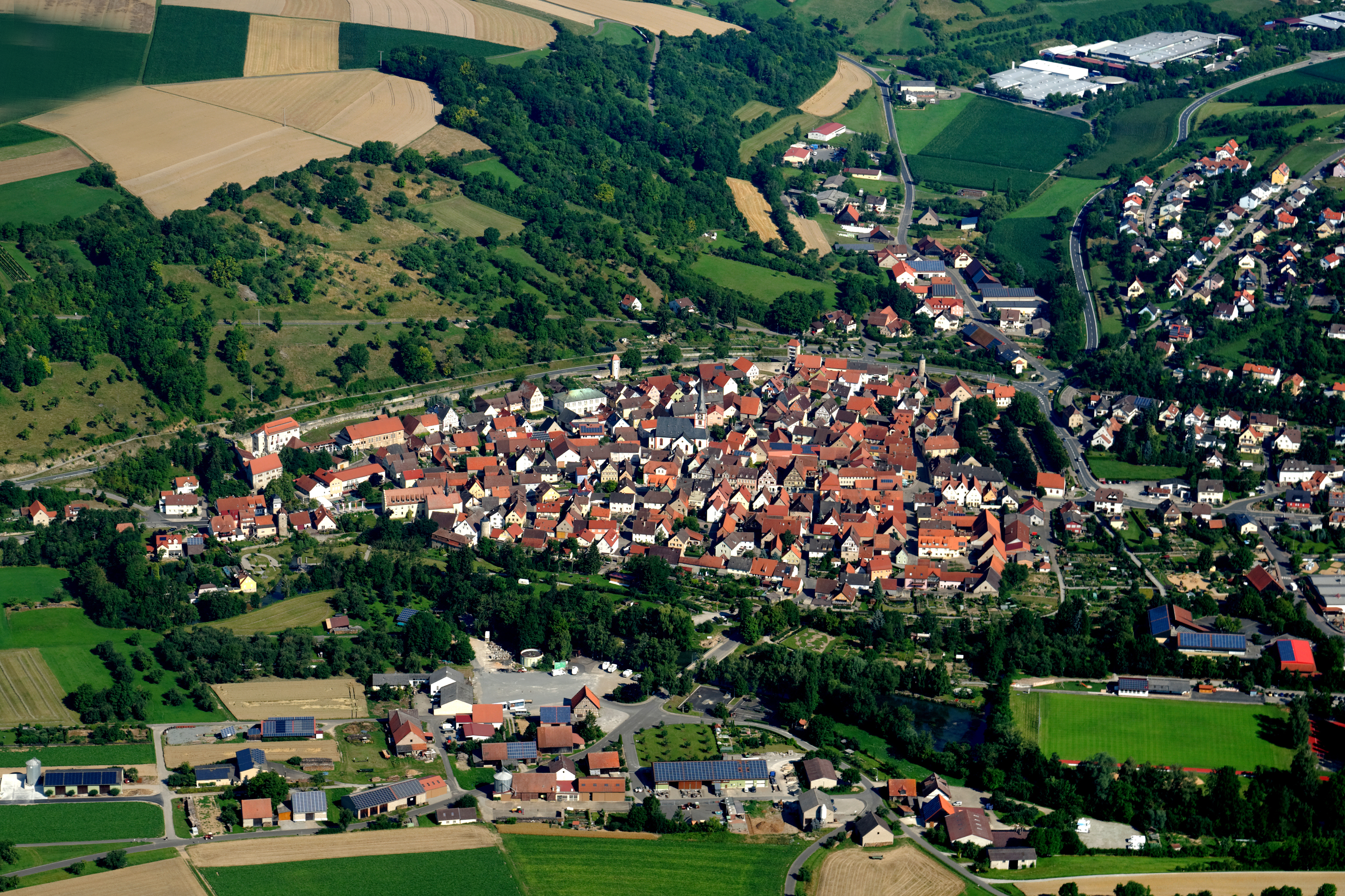 Röttingen on the romantic road.